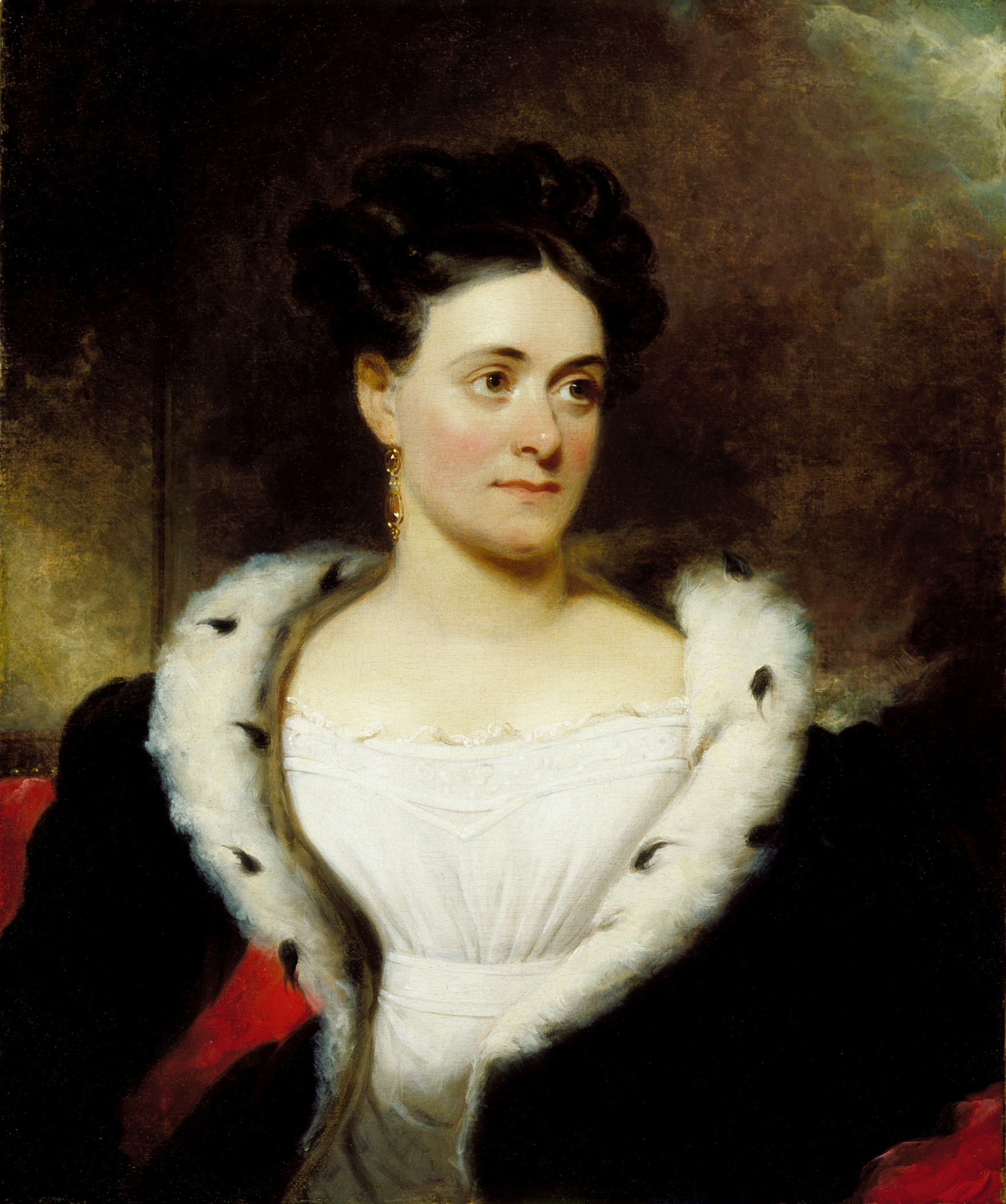 United States, circa 1828 Paintings Oil on canvas Gift of the Members of the American Art Council's 1985 Spring Trip (M.85.33) American Art